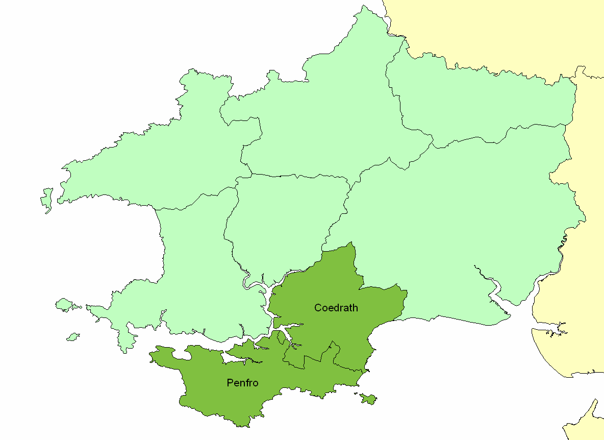 Map showing Cantref Penfro in Dyfed, and its commotes.